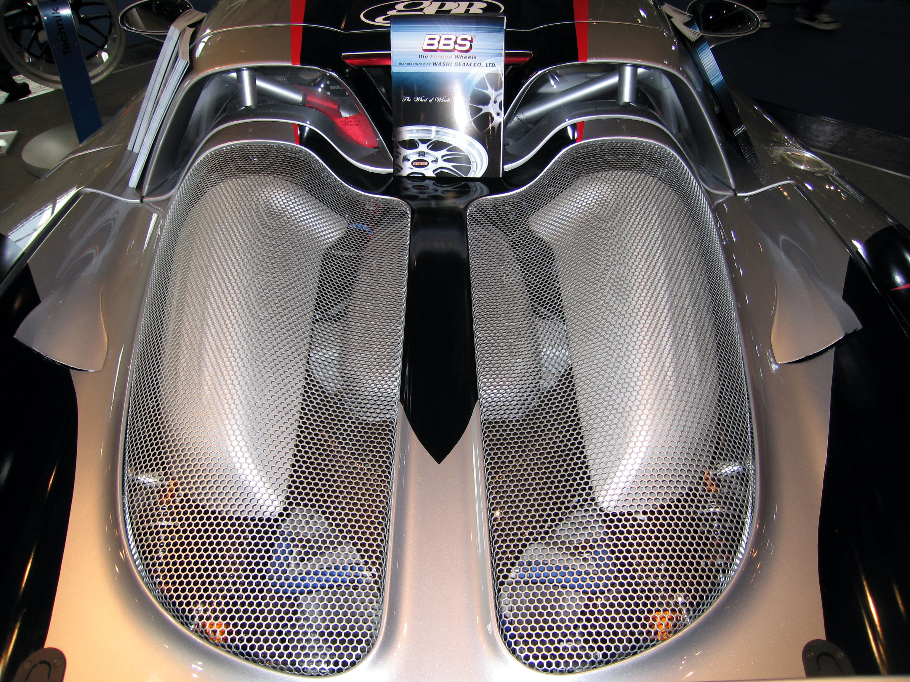 Porsche Carrera GT at the IAA 2007